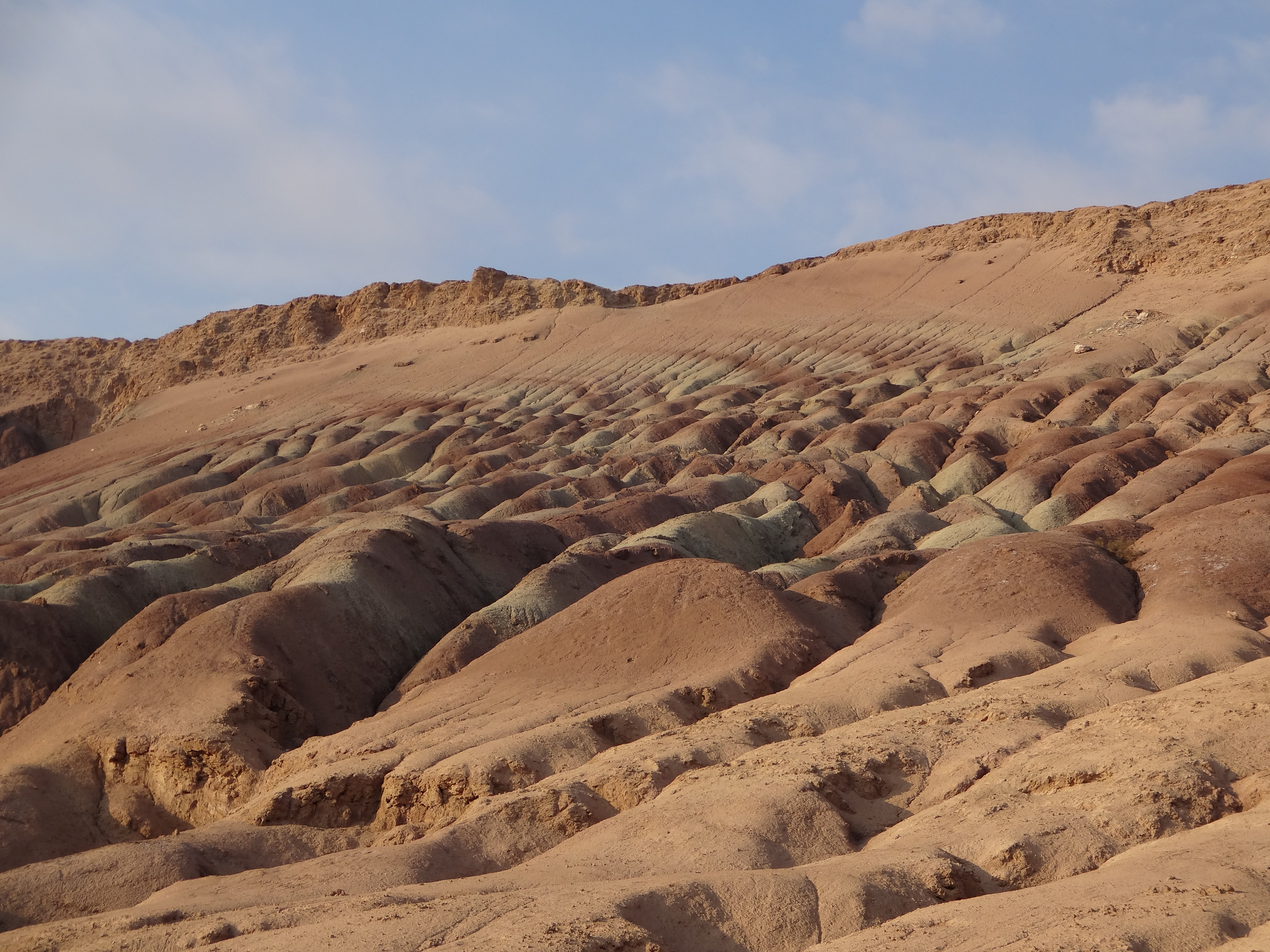 The topographical features on this mountain are mythically believed by local people to be the trace of the dragon tail on the mountain when Rostam Dastan (a mythical character) was following the dragon to capture it. This beautiful mountain is located in the northwest of the city of Garmsar.